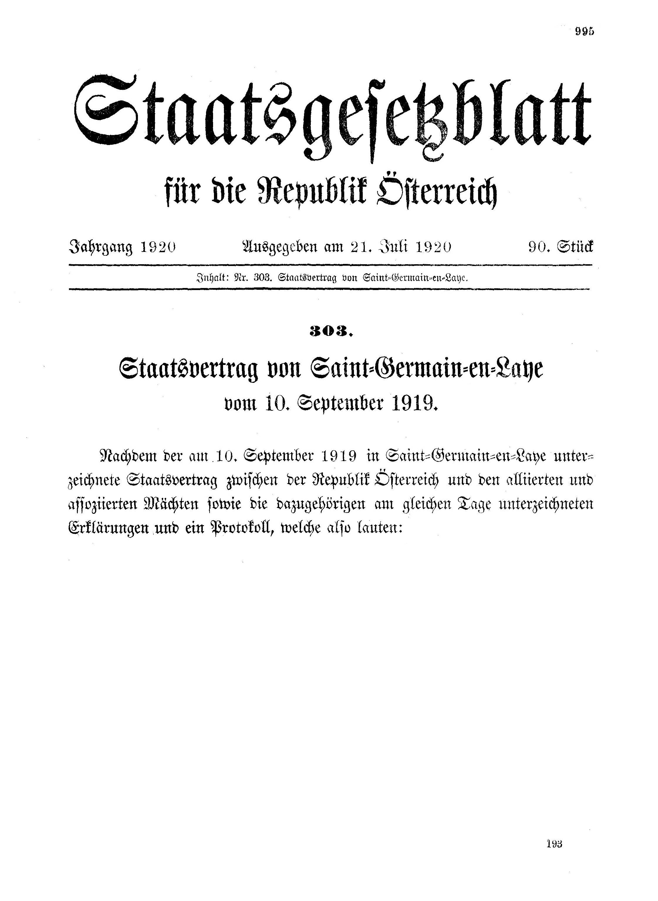 This is a scan of the historical document